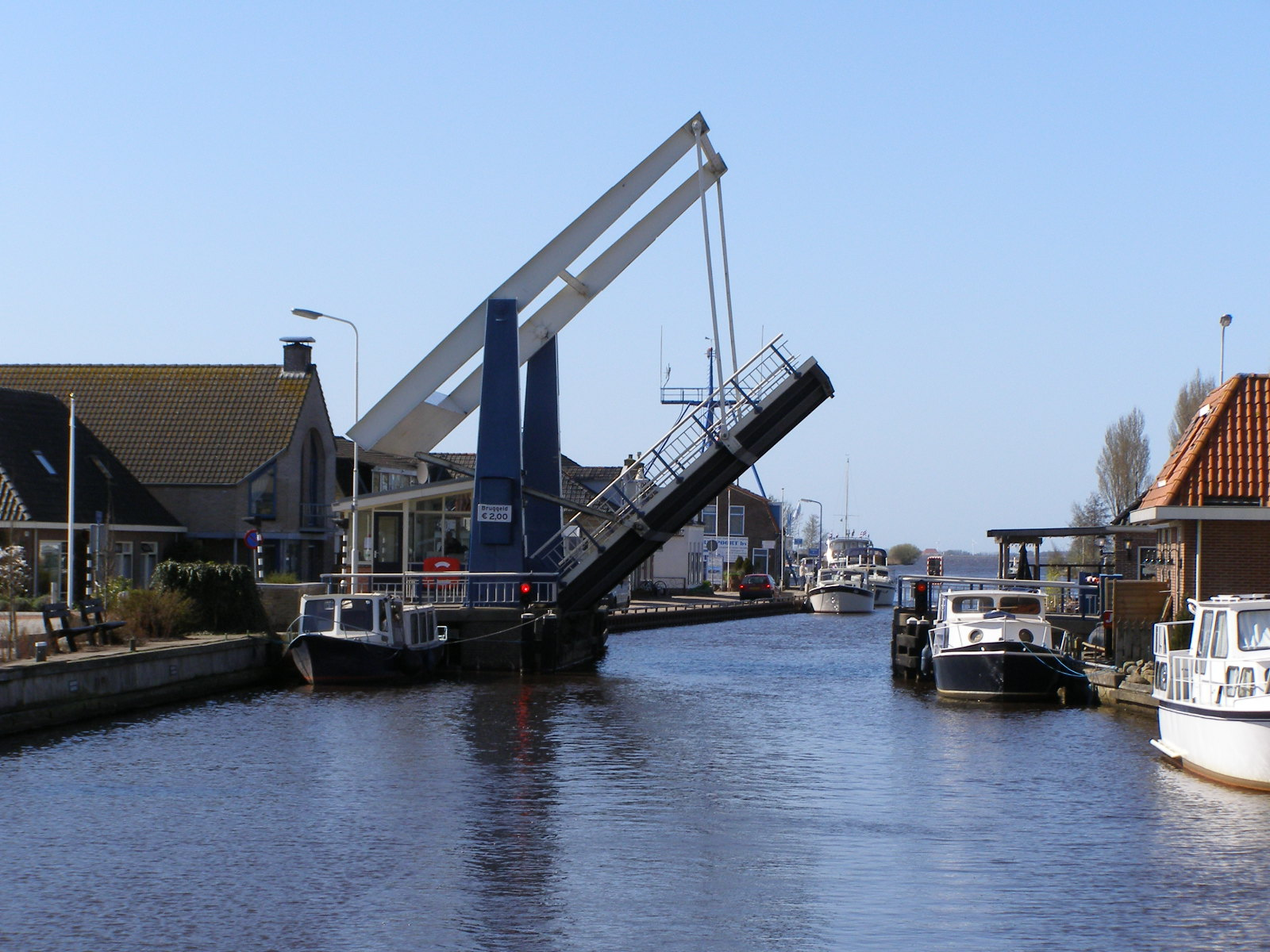 Closing PC-Bridge in Echtenerbrug, NL